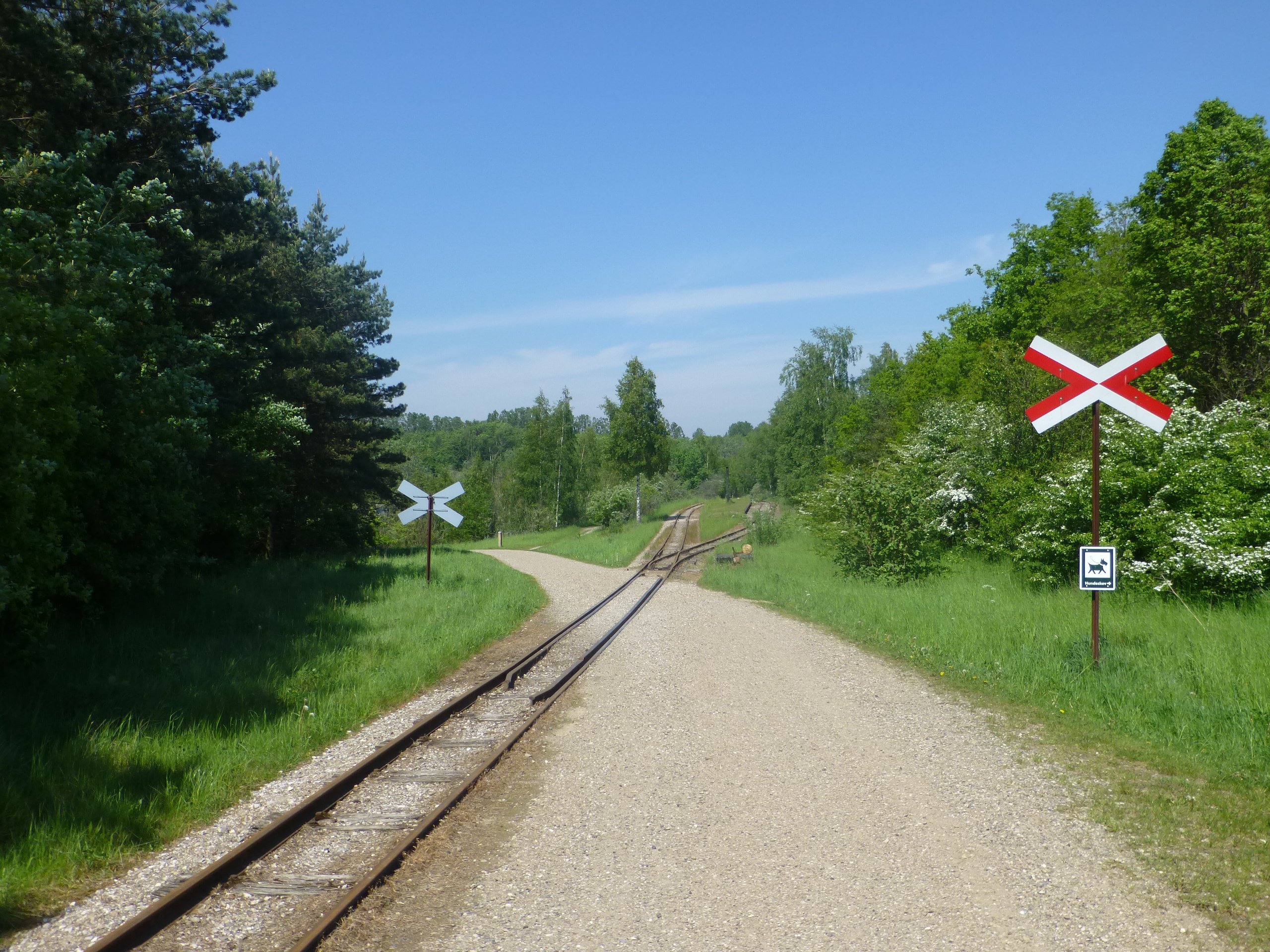 Sølund Station on the heritage railway Hedelands Veteranbane west of Copenhagen.